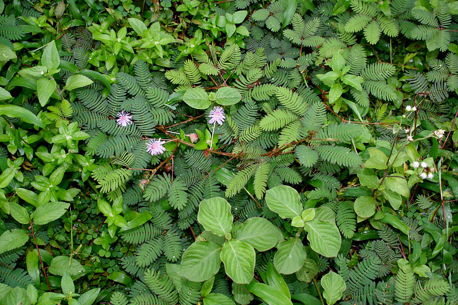 Mimosa pudica- Sensitive Plant, Touch me not, humble plant, shameful plant, sleeping grass, shy plant, shrinking plant, modest plant, virgin plant, Chui-mui छुई-मुई (Hindi), {Kangphal, Kangphal ikaithabi} (Manipuri), Lajwanti लाजवंती (Hindi), தொட்டாச்சுருங்கி thottaccurungi (Tamil), Tintarmani (Malayalam), Nilajban (Assamese), Lajjabati (Bengali)- in Goa, India.